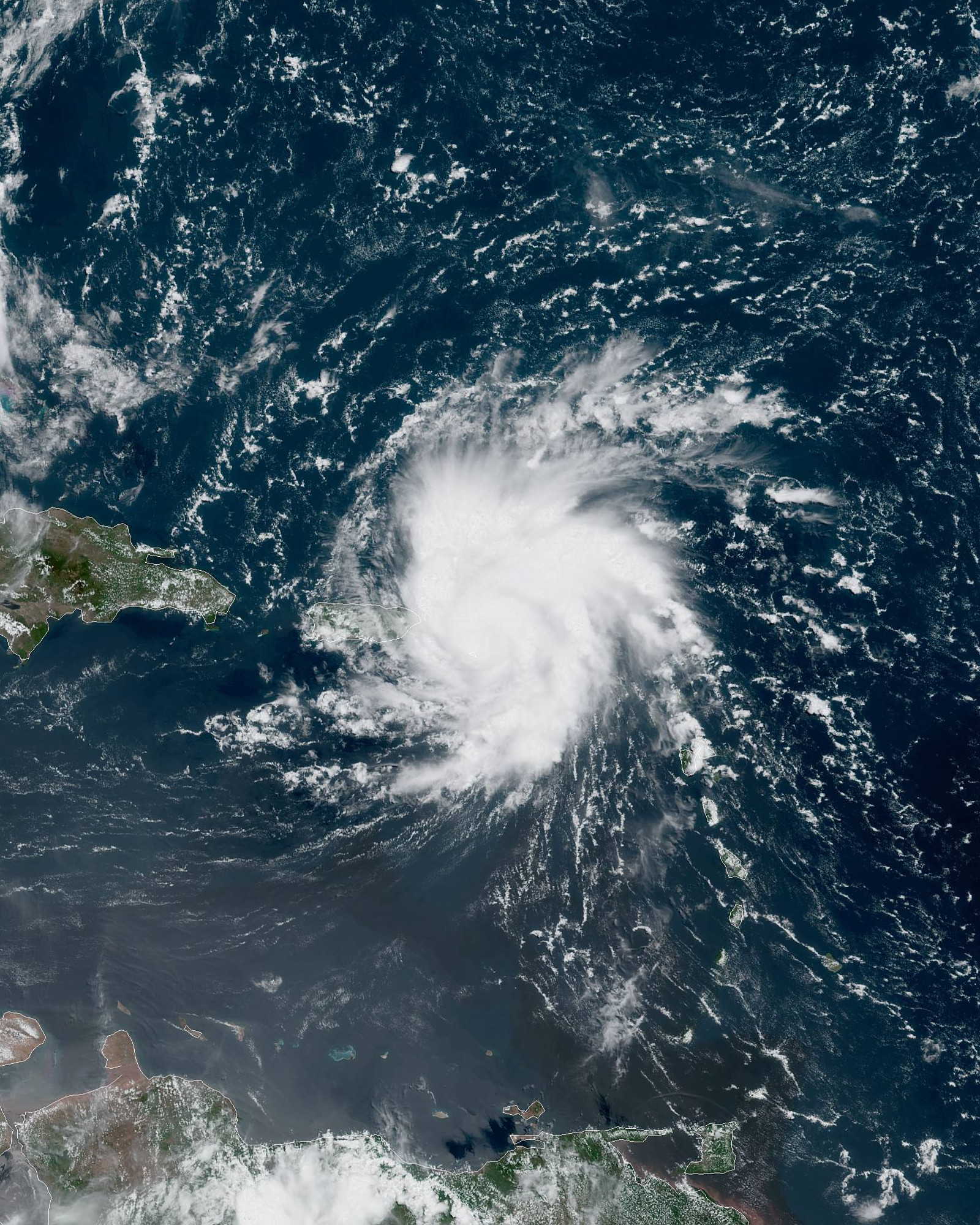 Tropical Storm Dorian on August 28, 2019